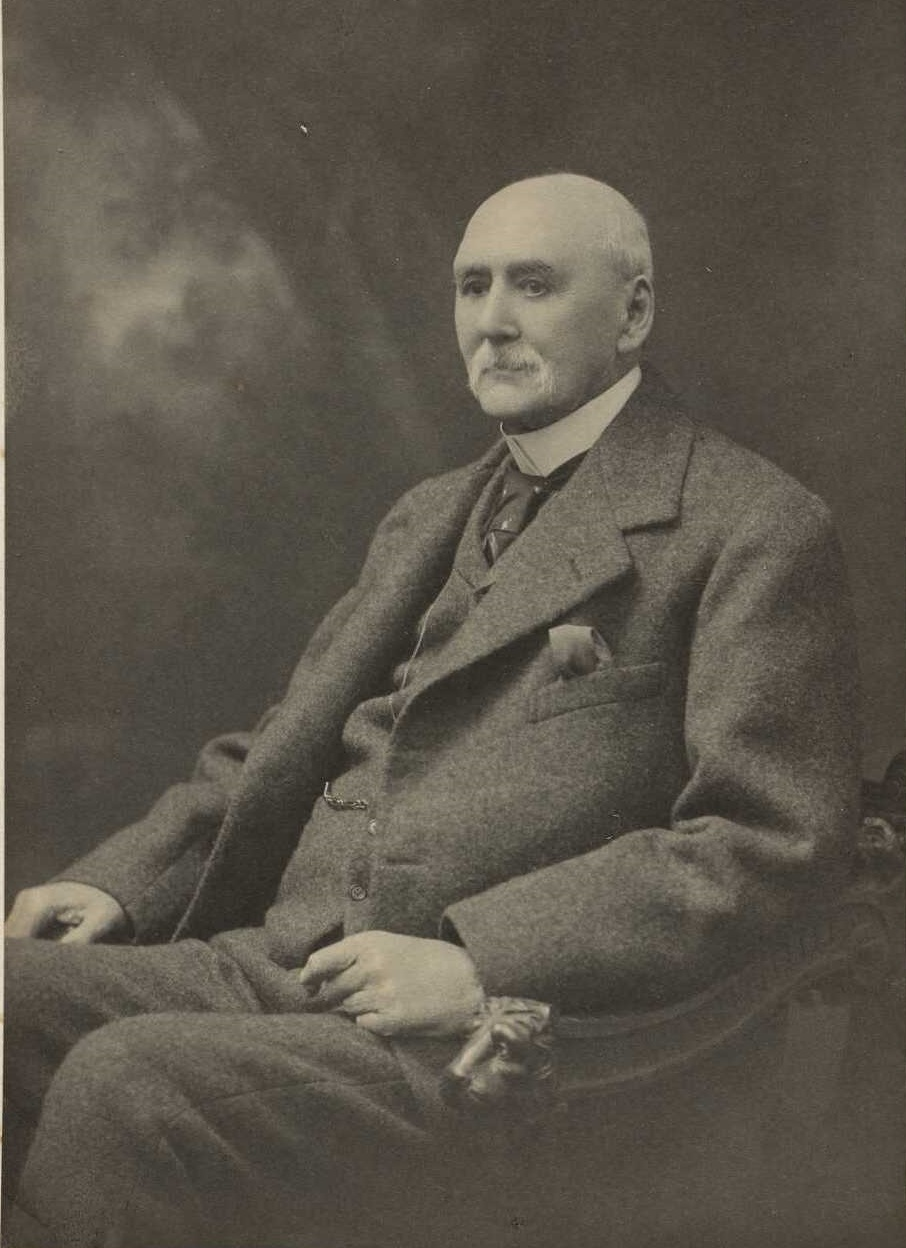 Portrait of Edward Pearce November 1915